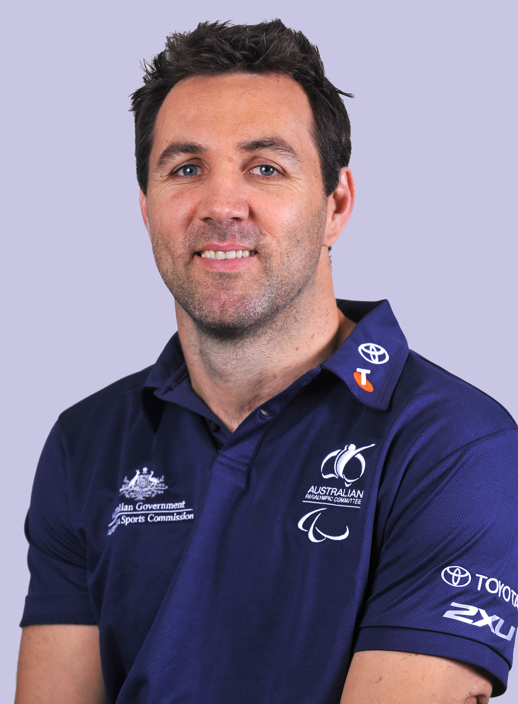 Portrait of Australian wheelchair rugby player Cameron Carr, 2012 Australian Paralympic (shadow) Team athlete